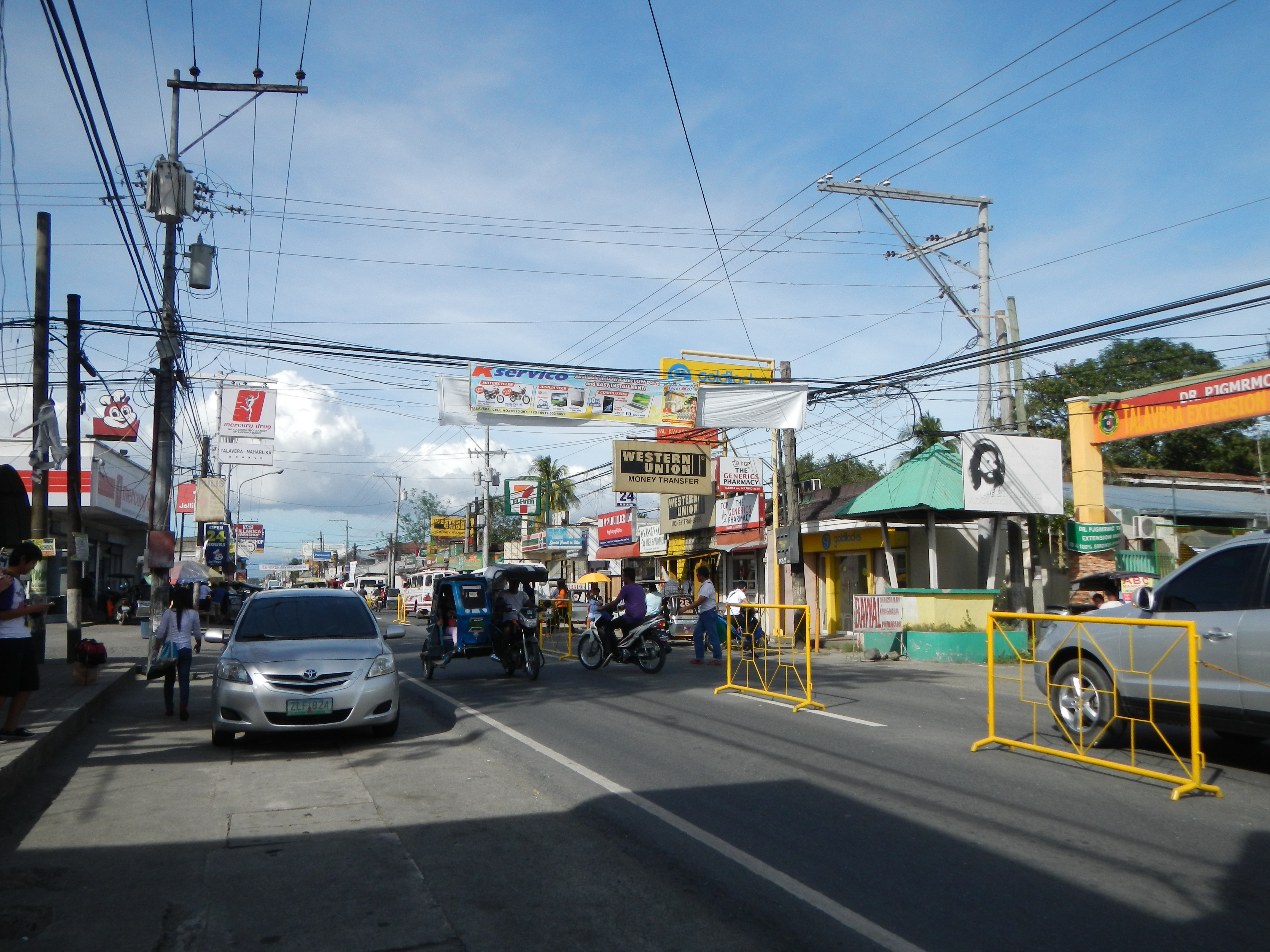 Upload Wizard photos -- (General description, 3-dimension angle by angle photography of this town, church & landmarks) -- San Isidro Labrador Parish Church of Talavera and Rectory, Town Hall, Centro, downtown, Town Proper, Centro, bus and jeep stop, Public Market,Talavera, Nueva Ecija[1] (s a first class municipality in the province of Nueva Ecija, Philippines 2010 census, had a population of 112,515 people politically subdivided into 53 barangays.Website [2]Land Area: 140.70 km² ZIP Code: 3114 Coordinates: 15°37'19"N 120°56'6"E).[3] [4] geographical location: Nueva Ecija, Region 3, Philippines, Asia geographical coordinates: 15° 35' 4" North, 120° 55' 10" East.[5] [6] and Anilao, Mabini, Batangas - its barangay hall, inside the Anilao Multi-Purpose Port, and Cabanautuan City Welcome Arch and Pan-Philippine Highway.